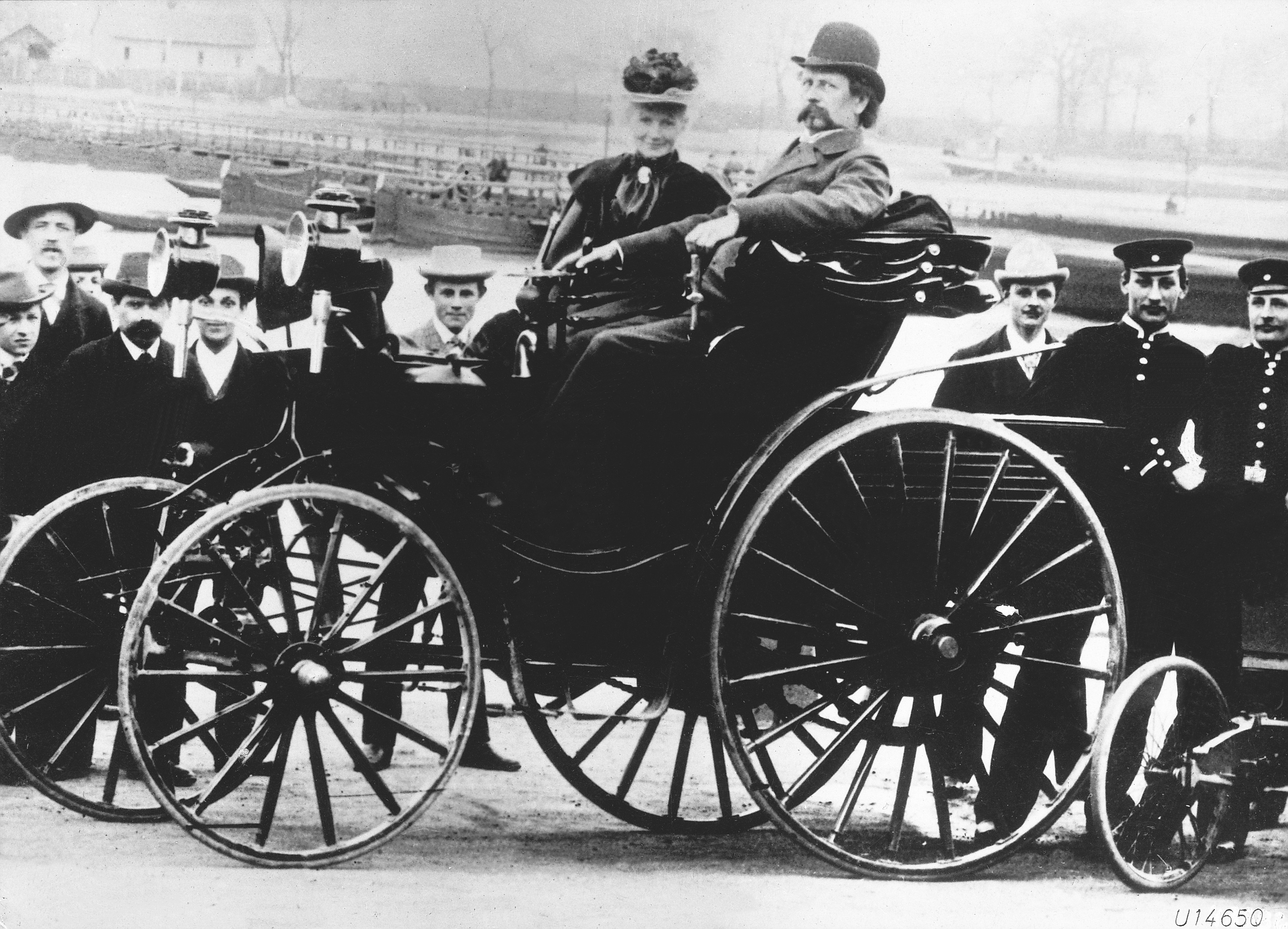 The invention of the automobile. Karl Benz with his wife, Bertha Benz, in a Benz Victoria, model 1894.